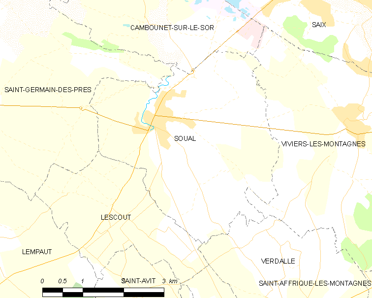 Map of French municipality Soual